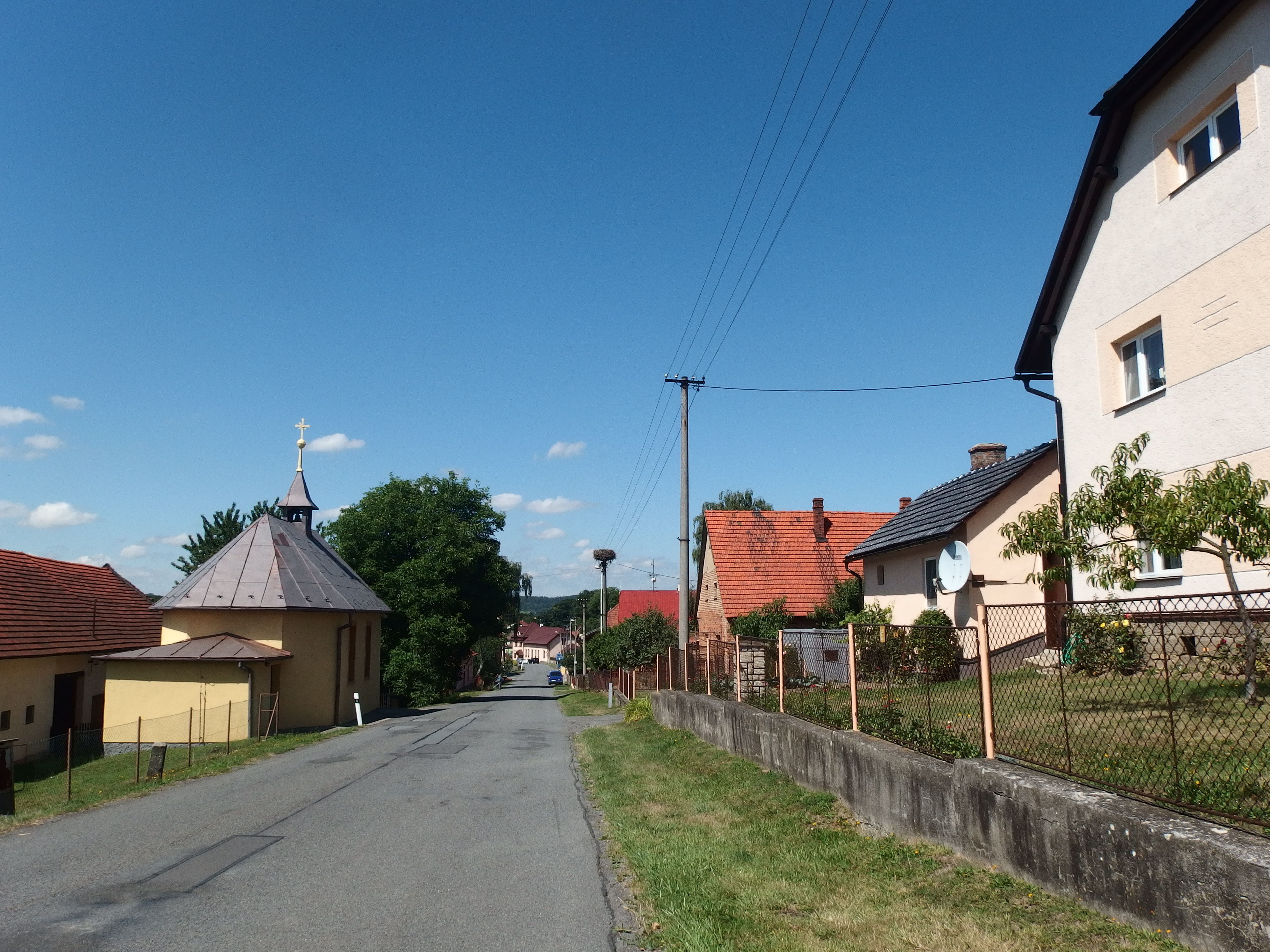 Starý Jičín, Nový Jičín District, part Palačov.